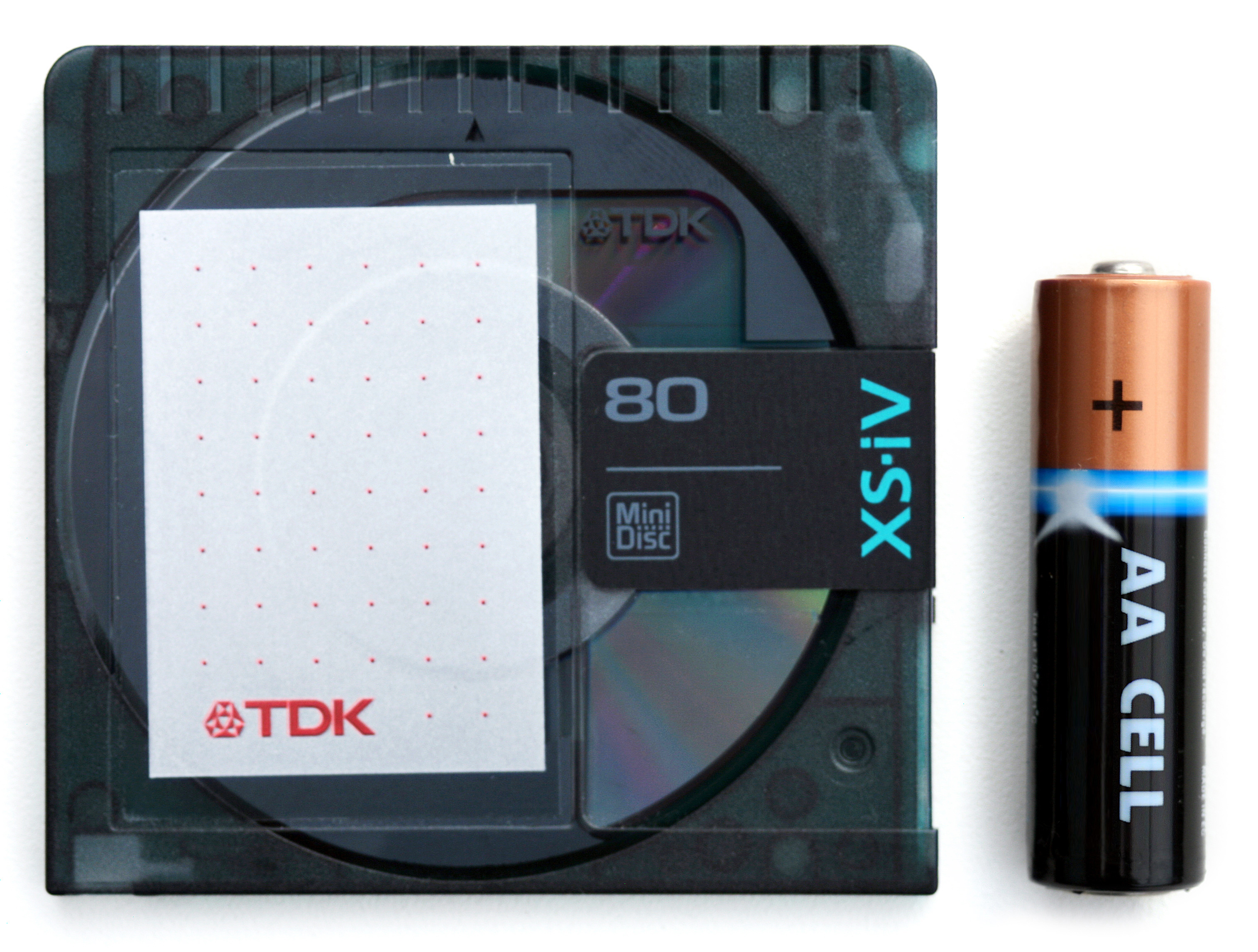 MiniDisc manufactured by TDK, with an AA battery for size comparison